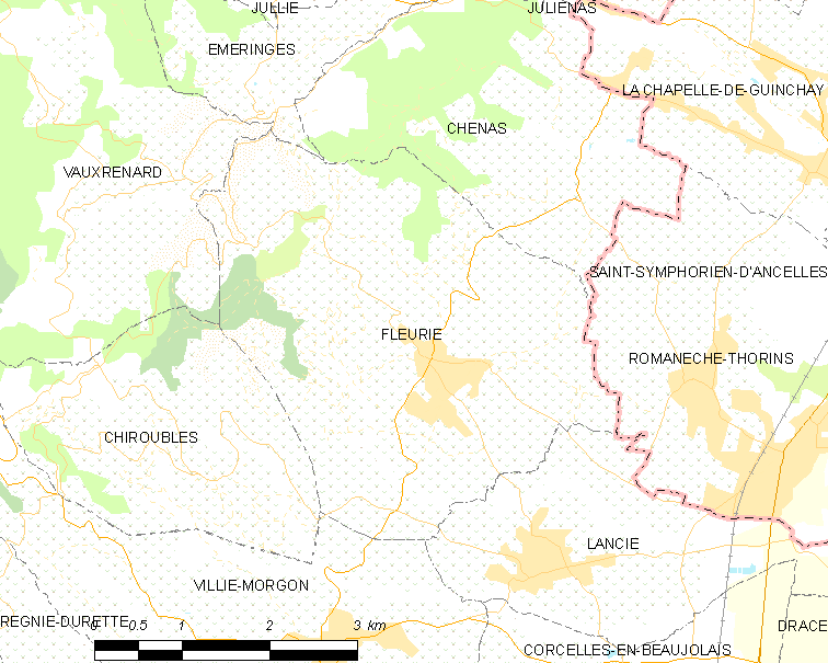 Map of French municipality